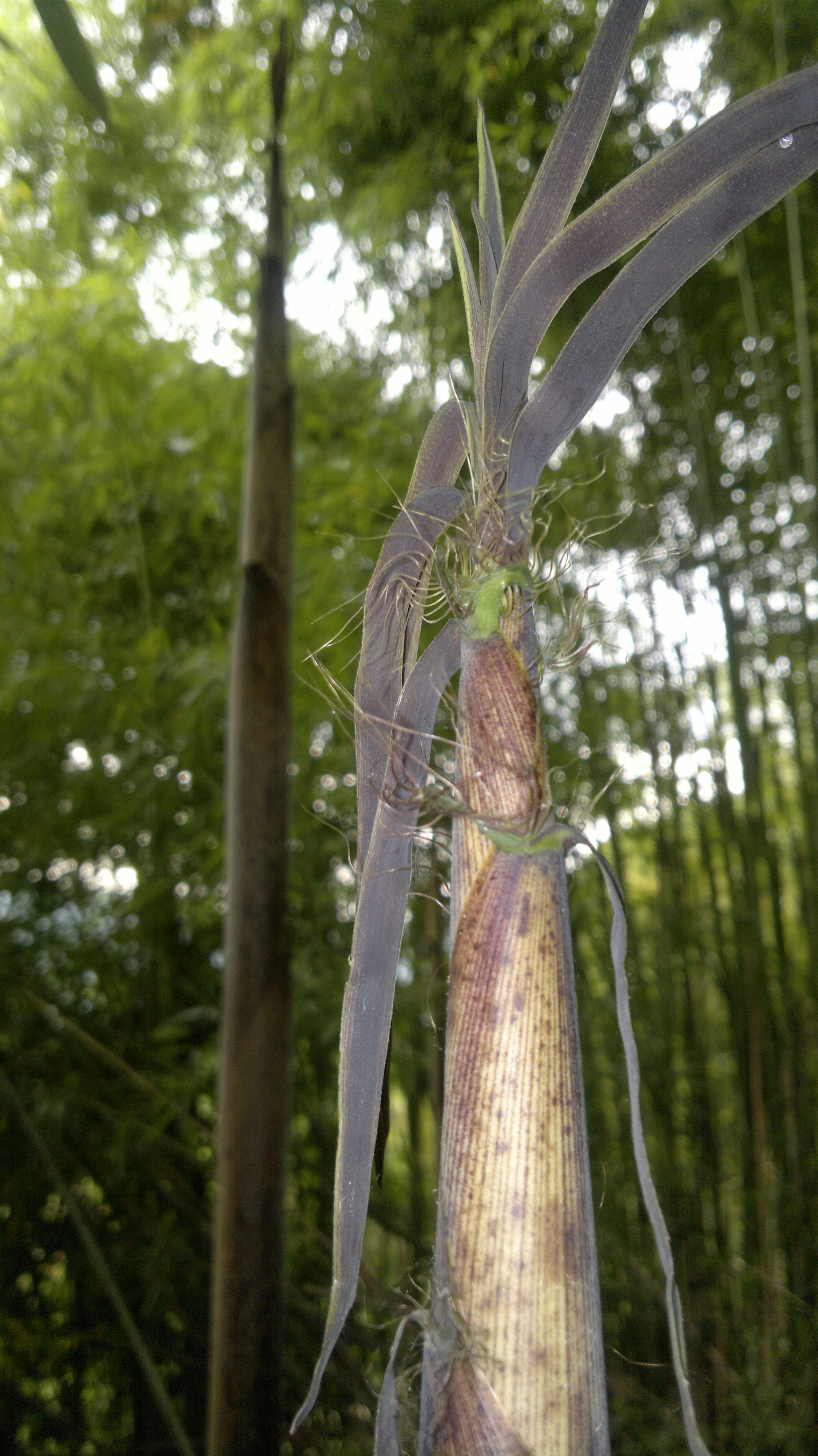 bamboo bambou bambuseae phyllostachys VAN_DEN_HENDE_ALAIN CC-BY-SA-4_0 _210520142108 bamboo shoot turion stalk green foliage yellow stems garden ornamental plant green forest